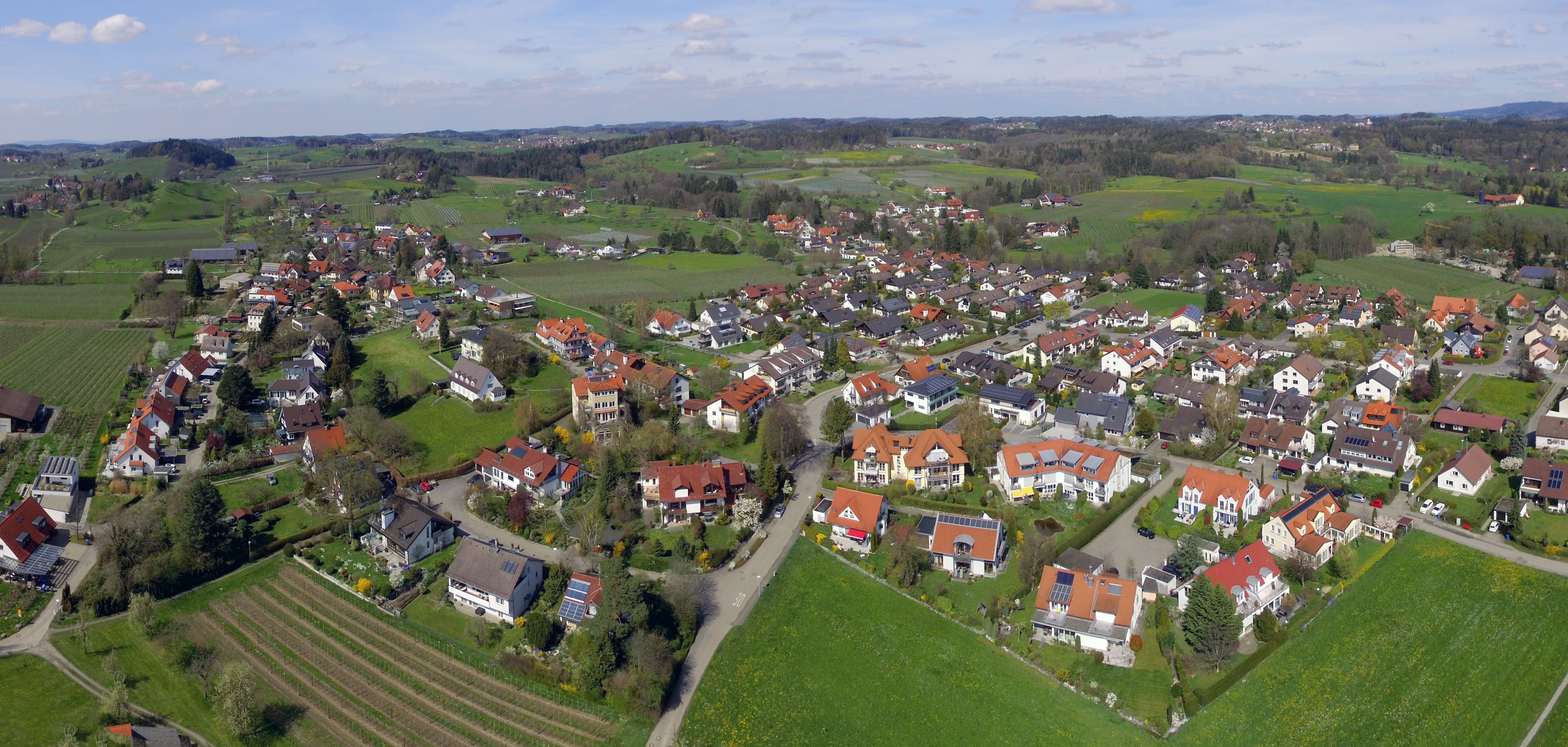 panoramic view of a district of the town Lindau, Germany